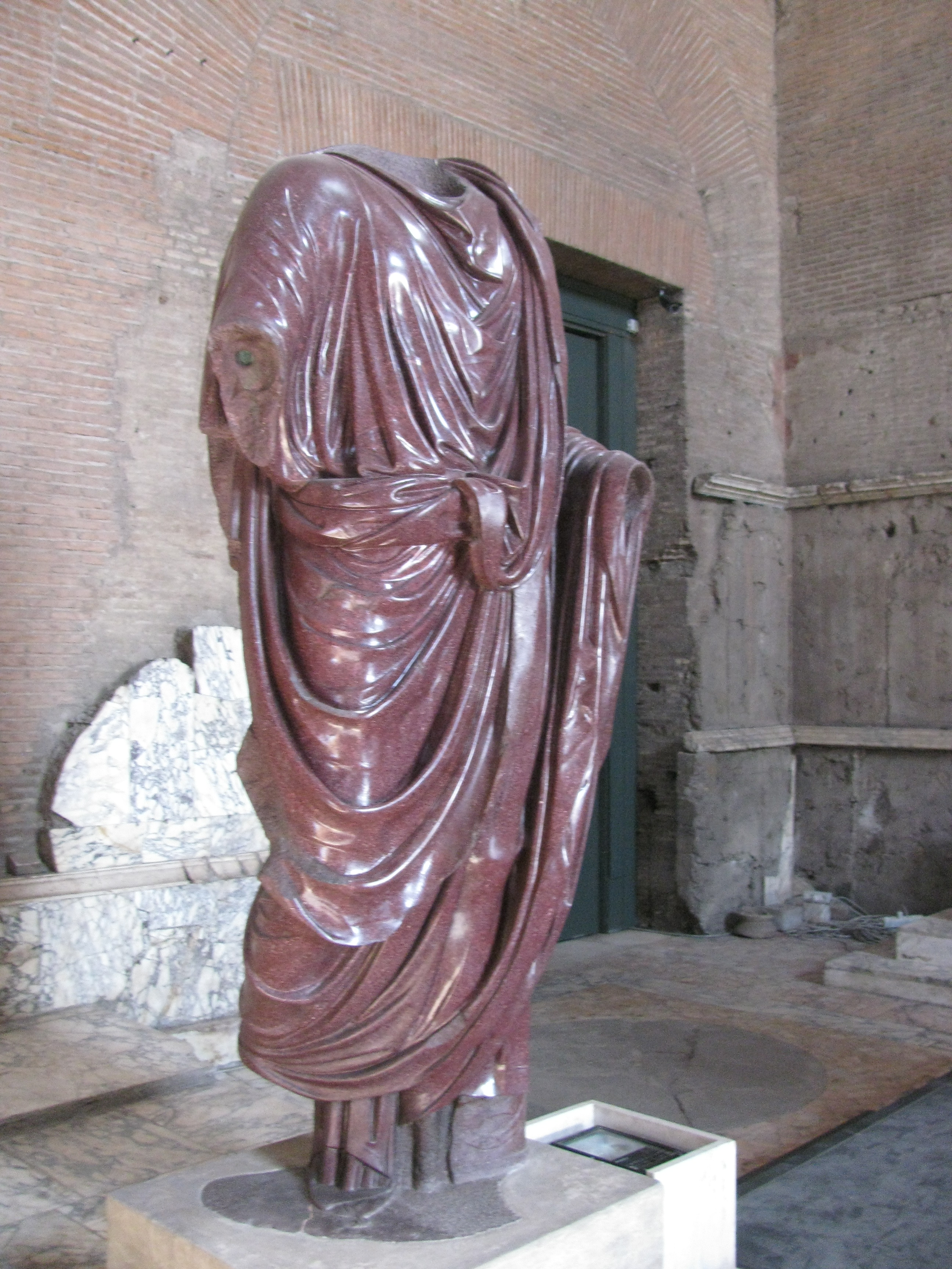 Porphyre statue, perhaps Trajan or Hadrian. Rome, Julian Curia near the Forum